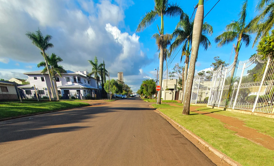 Street of Pedro Juan Caballero, Paraguay